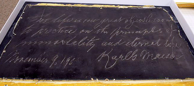 Karl G. Maeser's handwriting preserved on this chalkboard from the Maeser school in Provo.